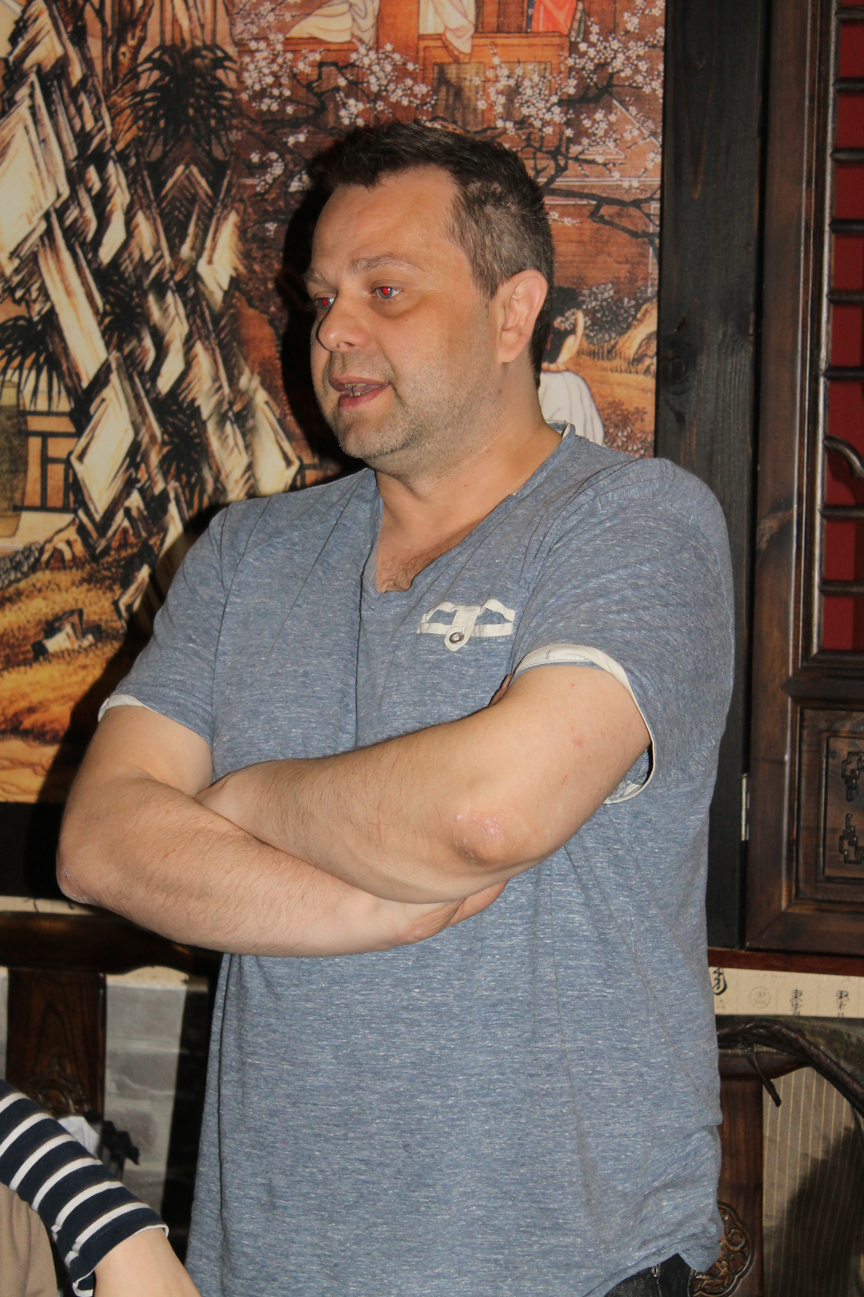 Kelet-ázsiai szócikkíró verseny díjátadás